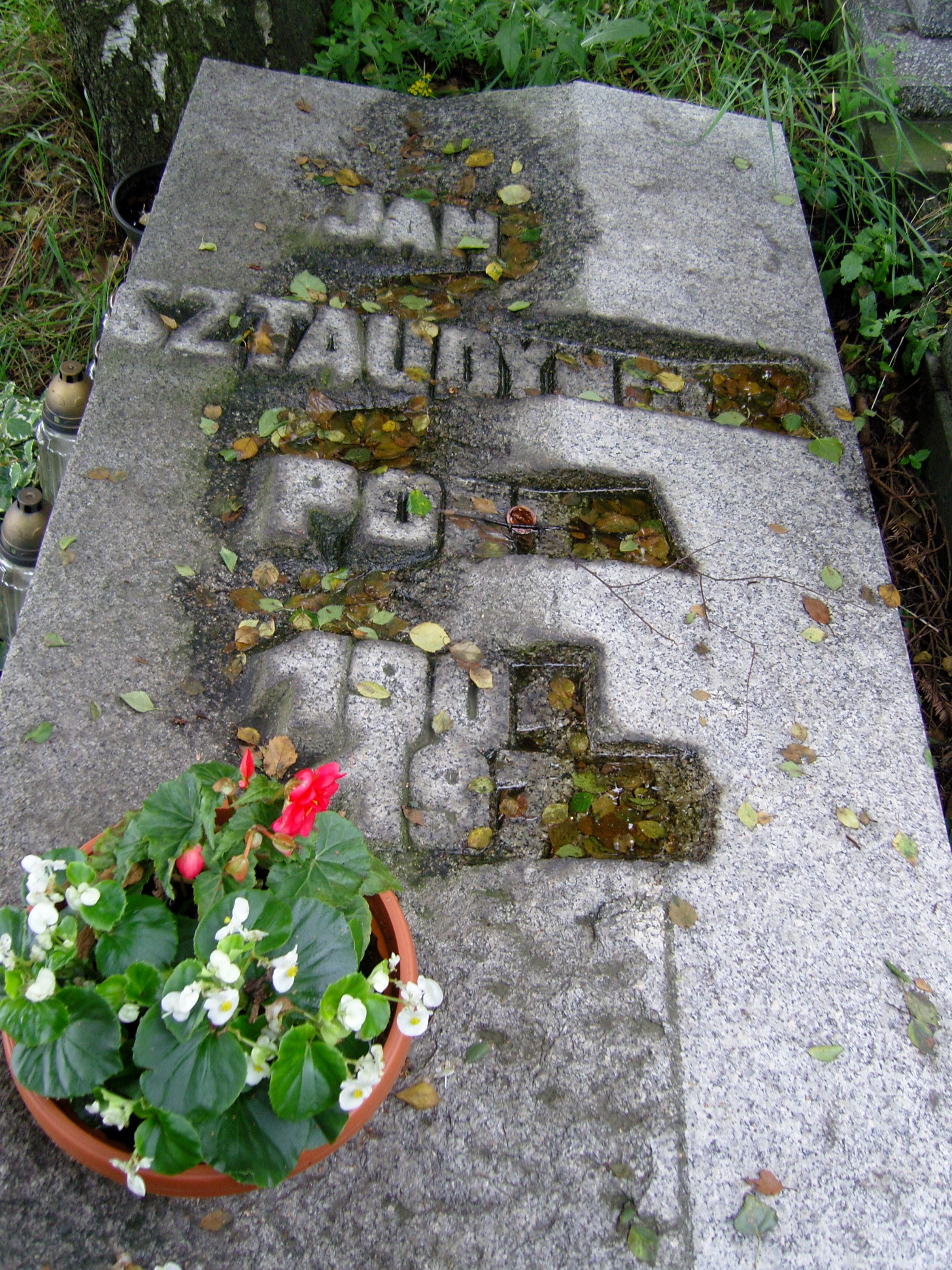 Jan Izydor Sztaudynger's grave